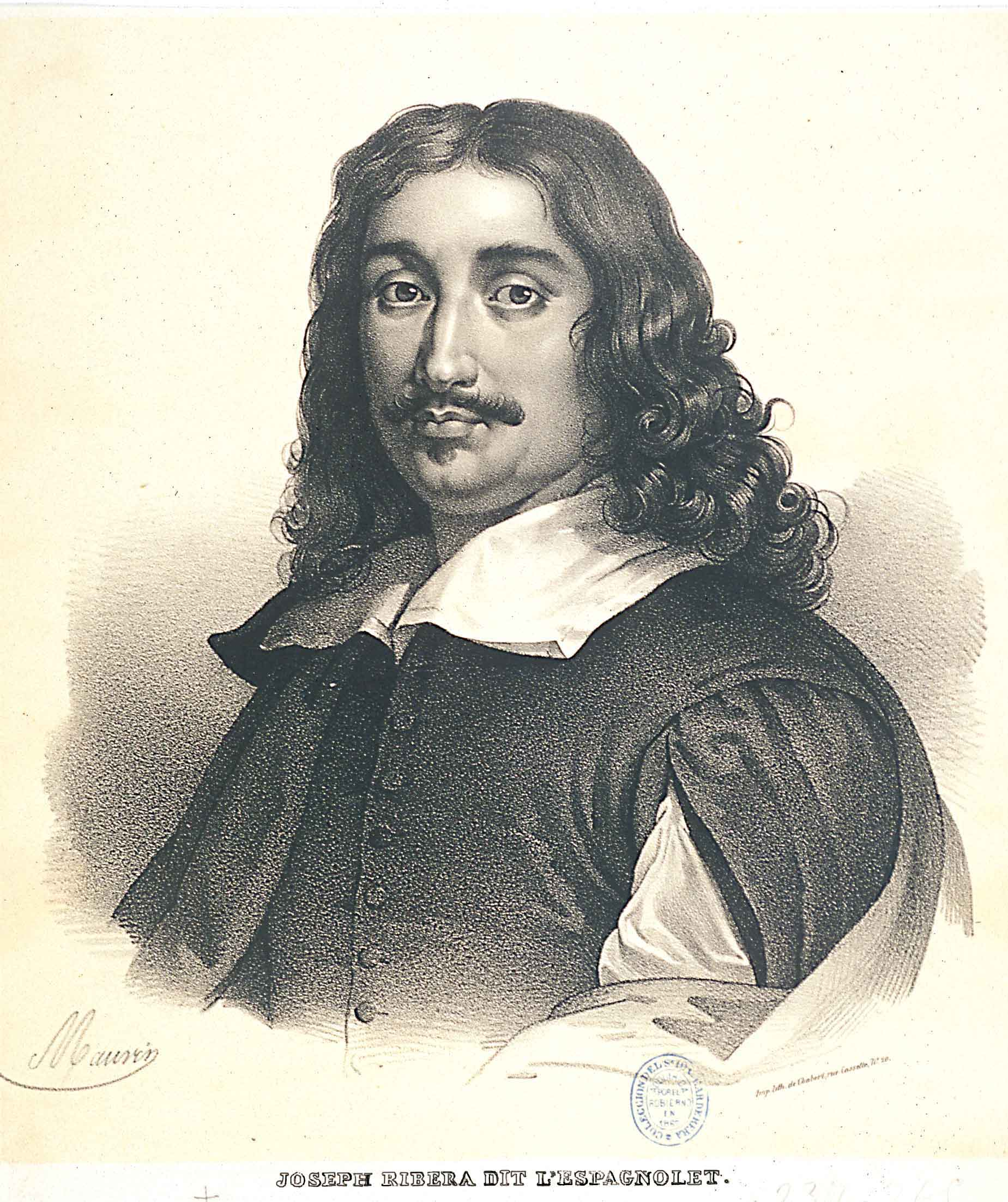 Portrait of Jusepe de Ribera - a Spanish Tenebrist painter, (born in 1591, deceased 1652) also known as Giuseppe Ribera or Jusepe de Ribera.